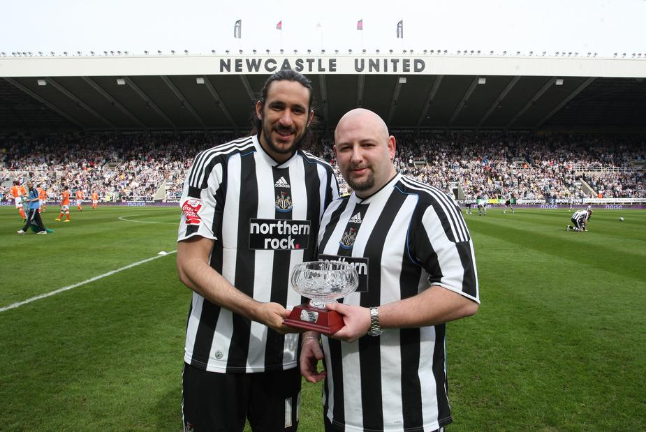 Jonás Gutiérrez being presented with the March 2010 Championship Player of the Month by a Newcastle United fan at St James' Park.